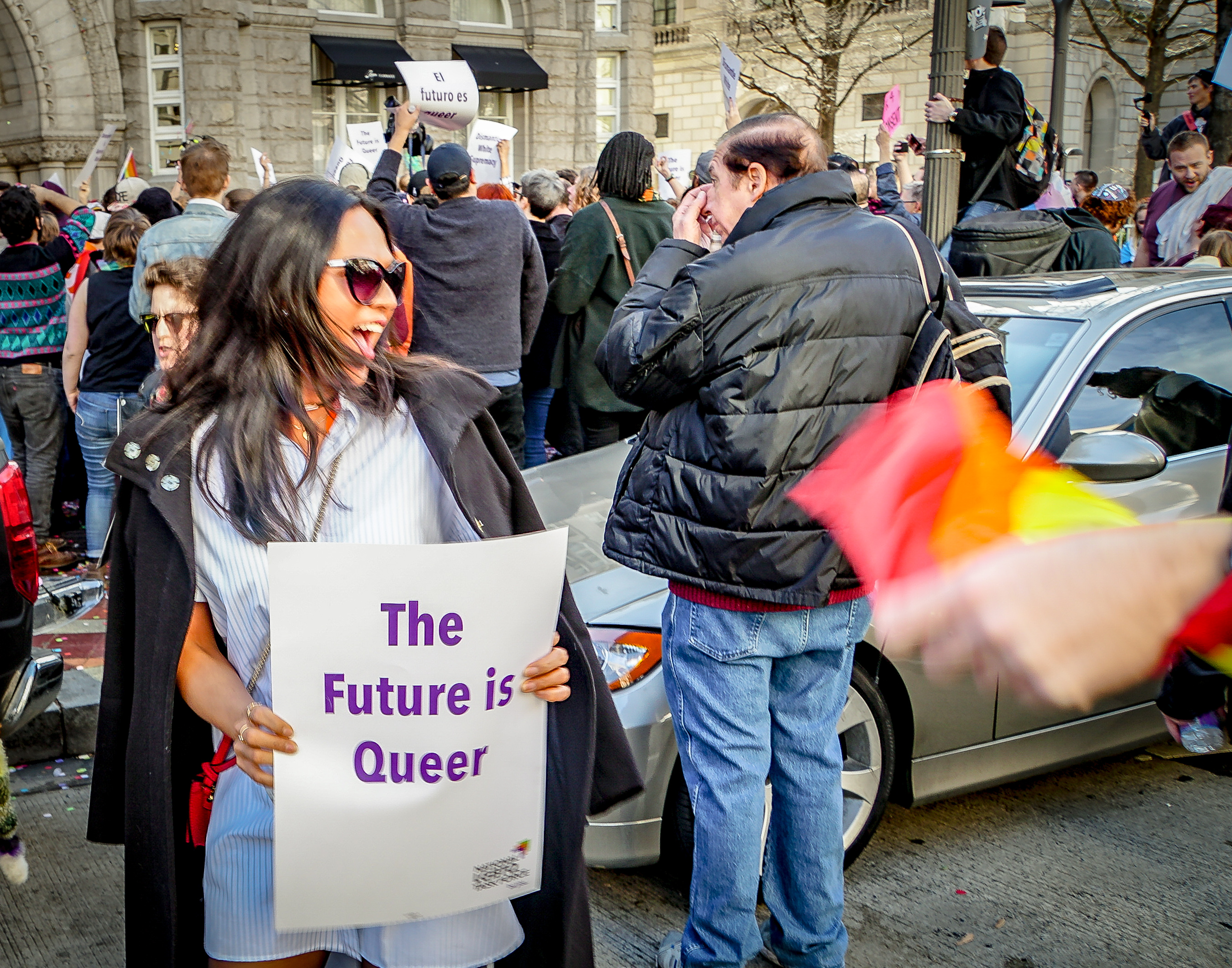 "It’s time to come together and demand a world where no one has to say #MeToo. We’re calling on our federal government and our local government to believe survivors and pass legislation to address sexual violence using a public health approach that doesn’t increase criminalization and works to build consent culture. All bodies, genders, sexualities, and expressions are welcome." #werkforconsent , see also